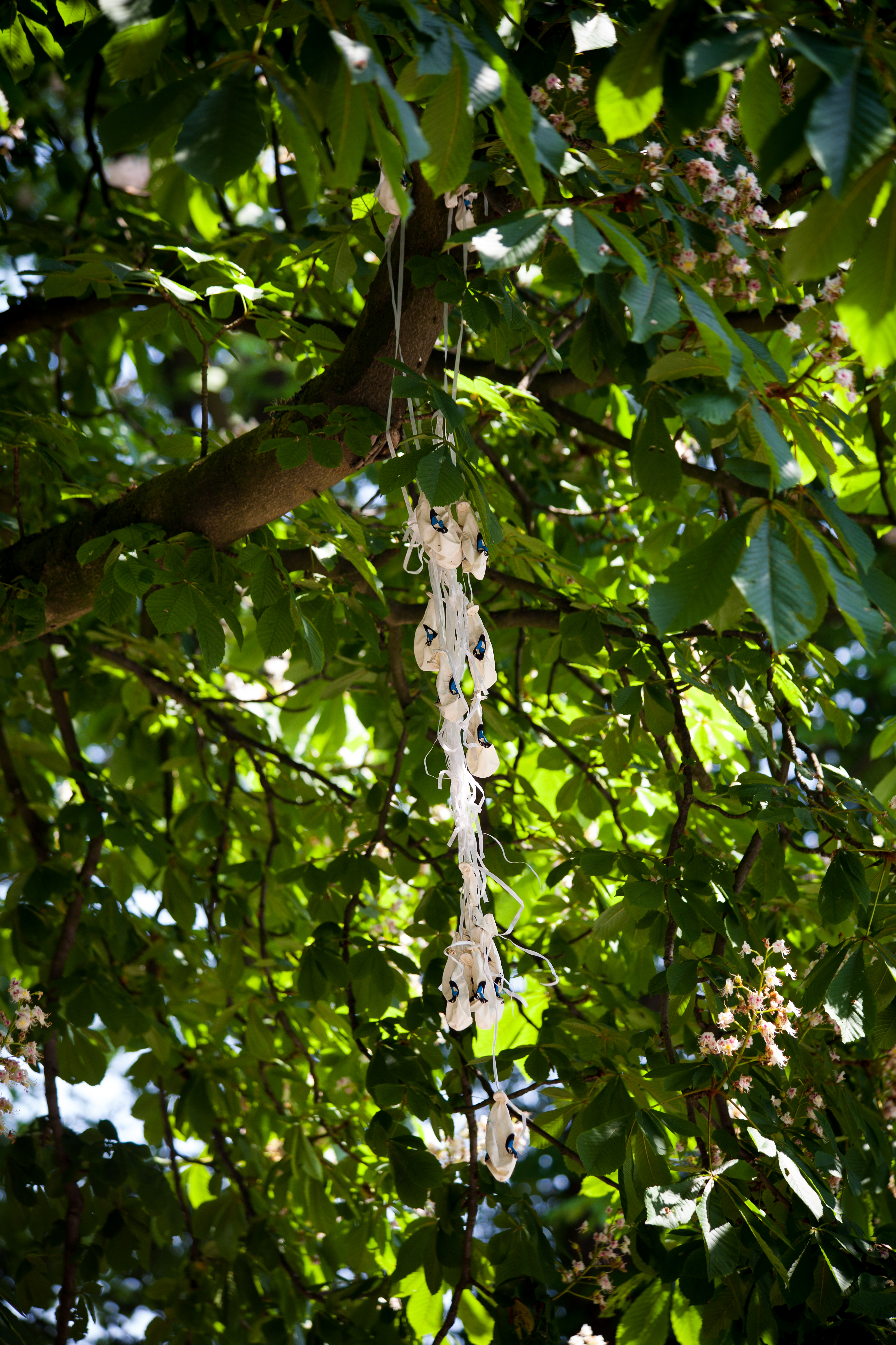 Balloons, with BMW logos, remains in a chestnut tree in Hamburg Ohlsdorf.